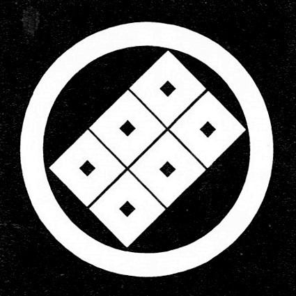 Crest of Horio clan